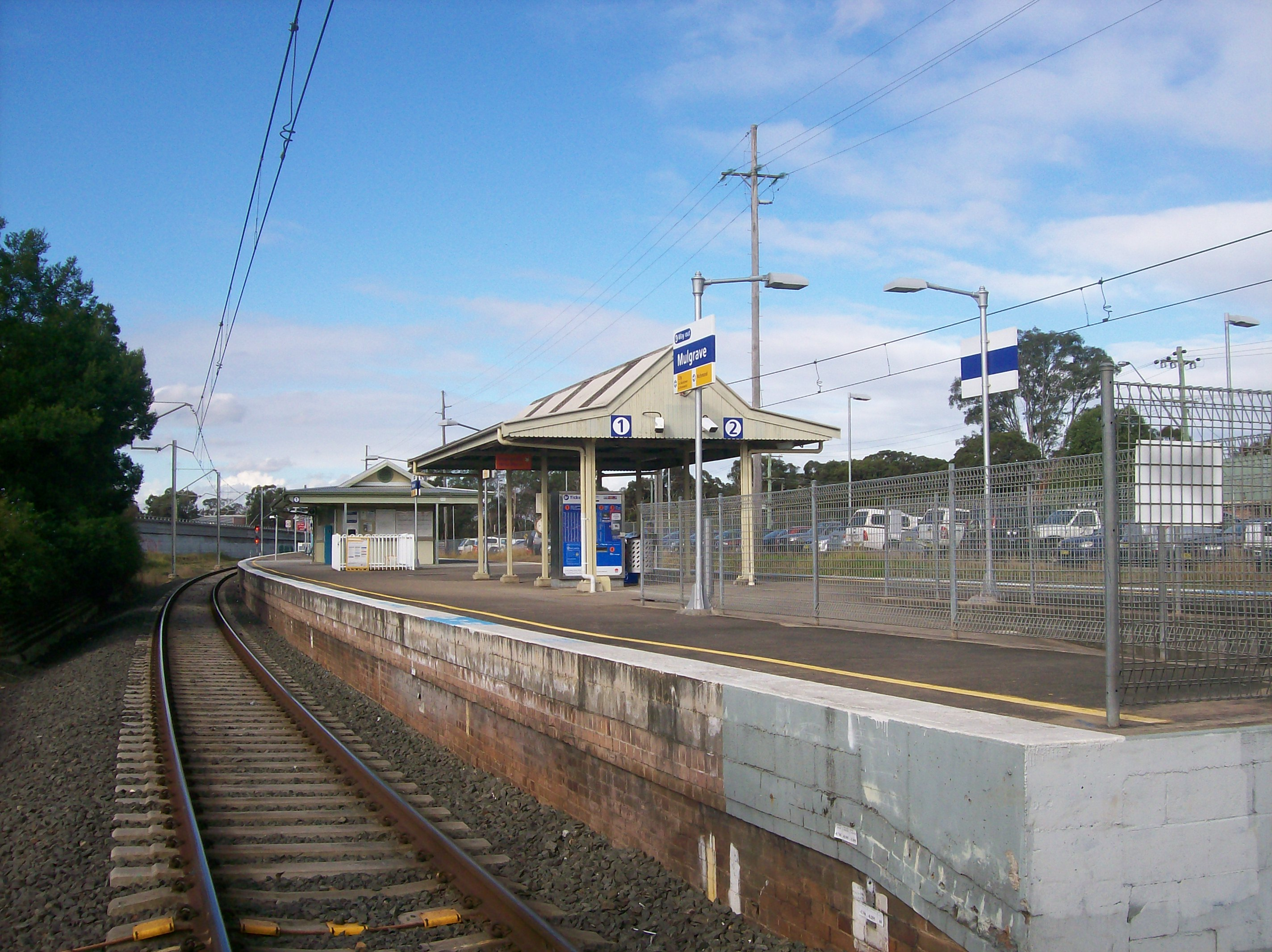 Mulgrave railway station